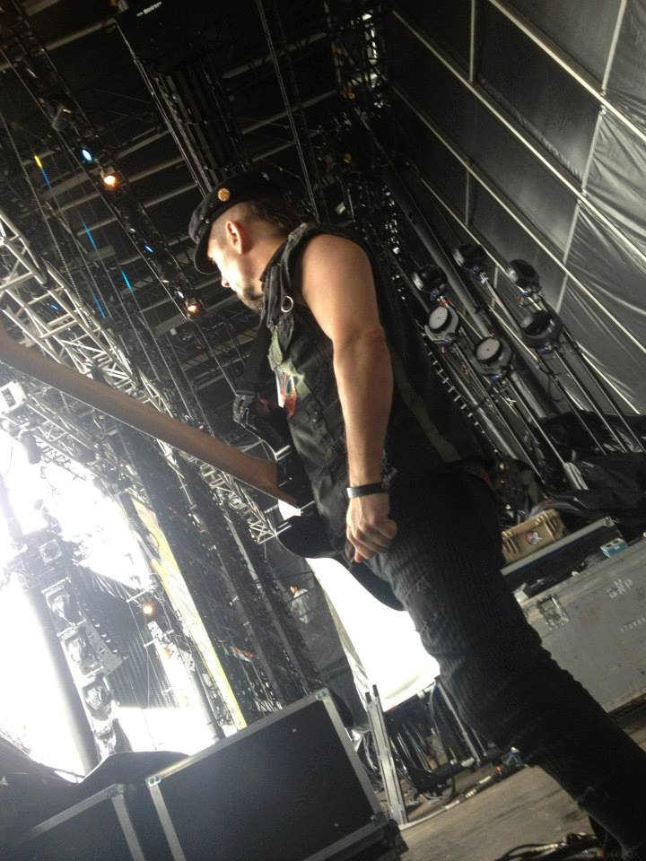 Scott Helland at Governor's Ball 2013 for the Deep Wound reunion